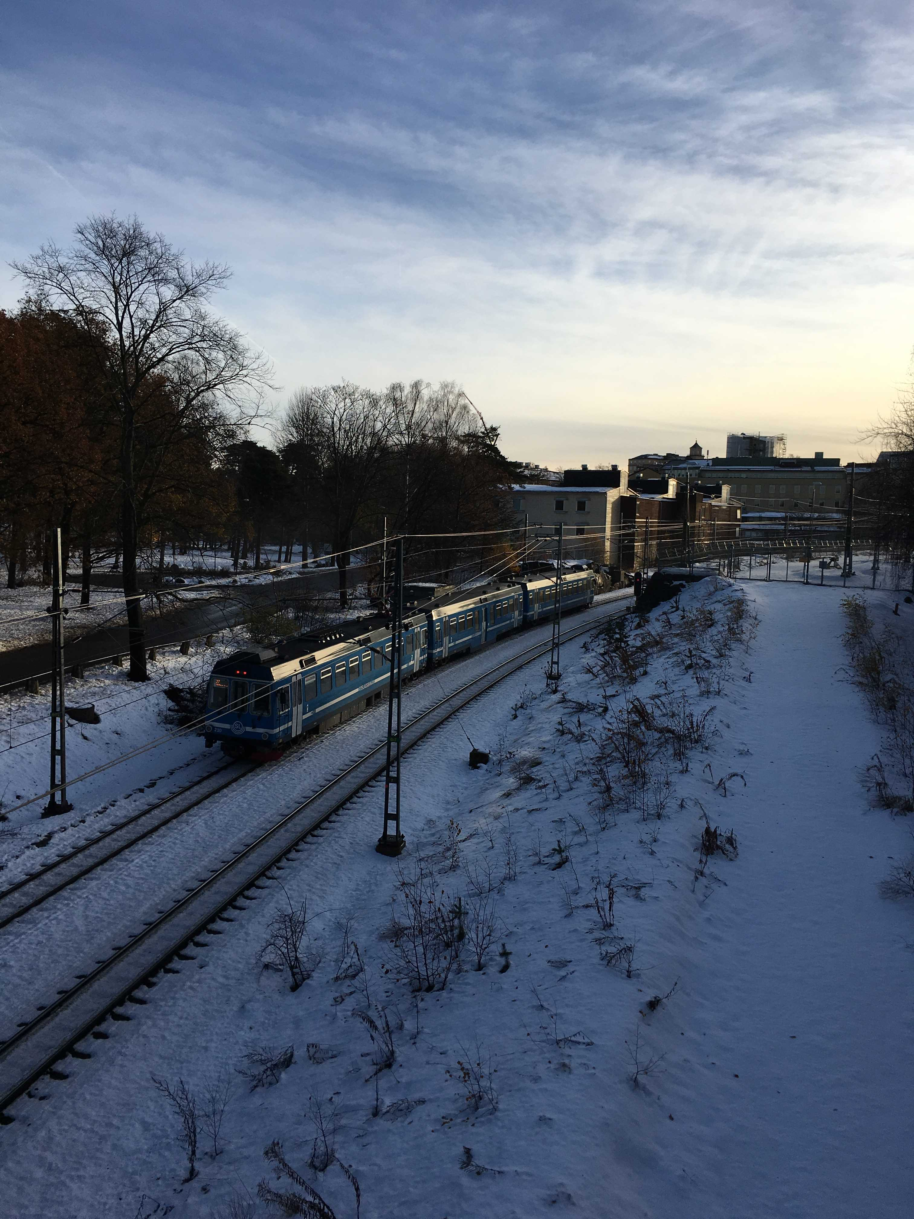 Electrified suburban rail system in winter